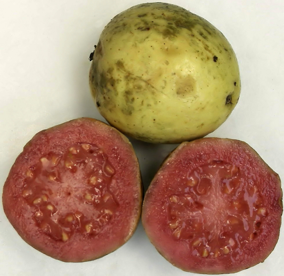 Two ripe guavas, one of them opened to show the pinkish flesh. Picture taken by Fibonacci.